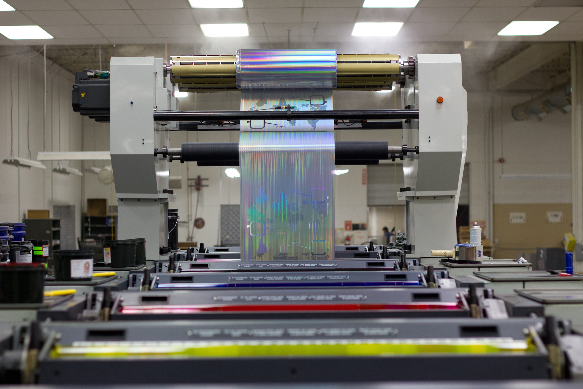 Cold Foil Printing machine working in-line on a manroland press.